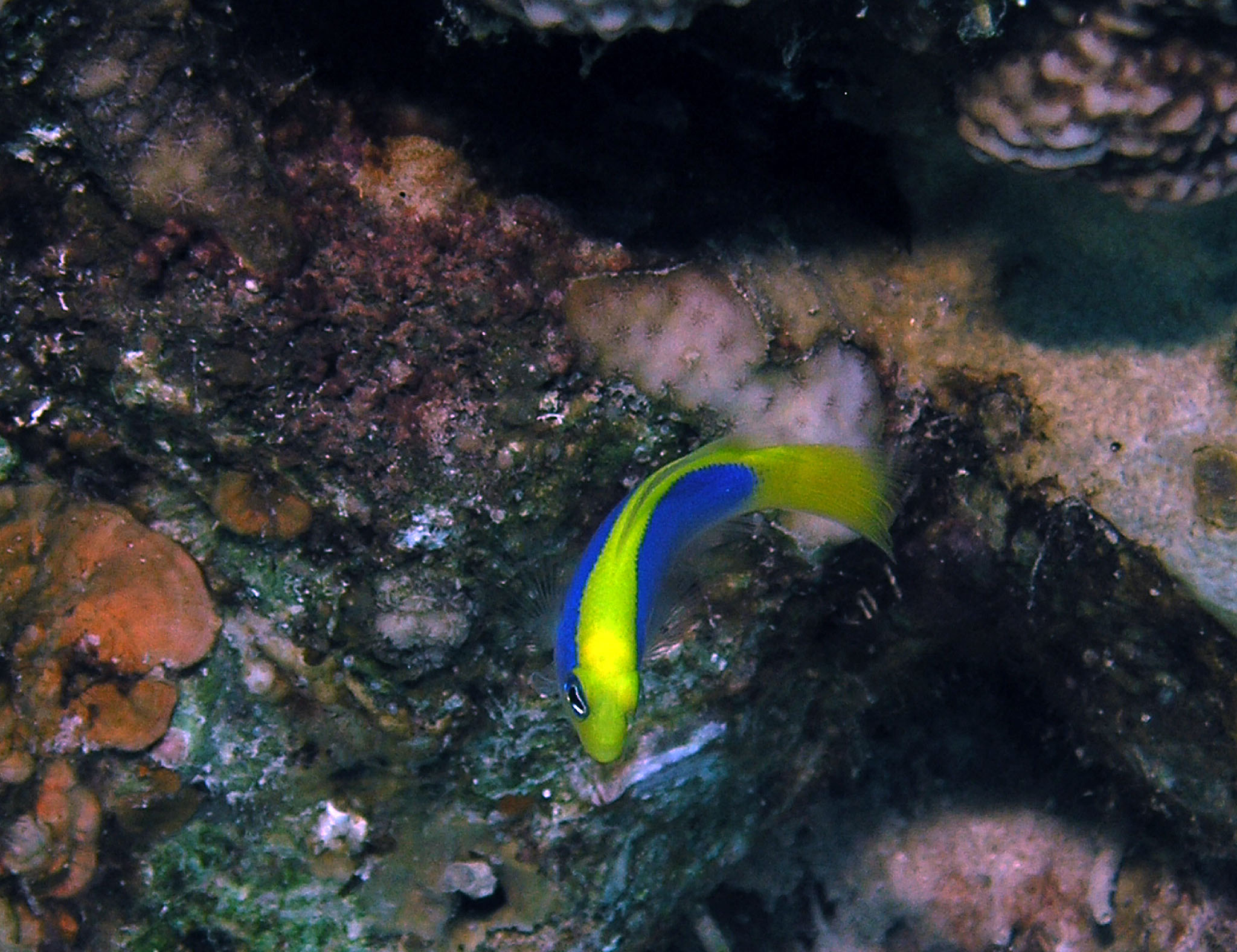 Yellowback Dottyback (Pseudochromis flavivertex). You are free to use this image providing you include a link to